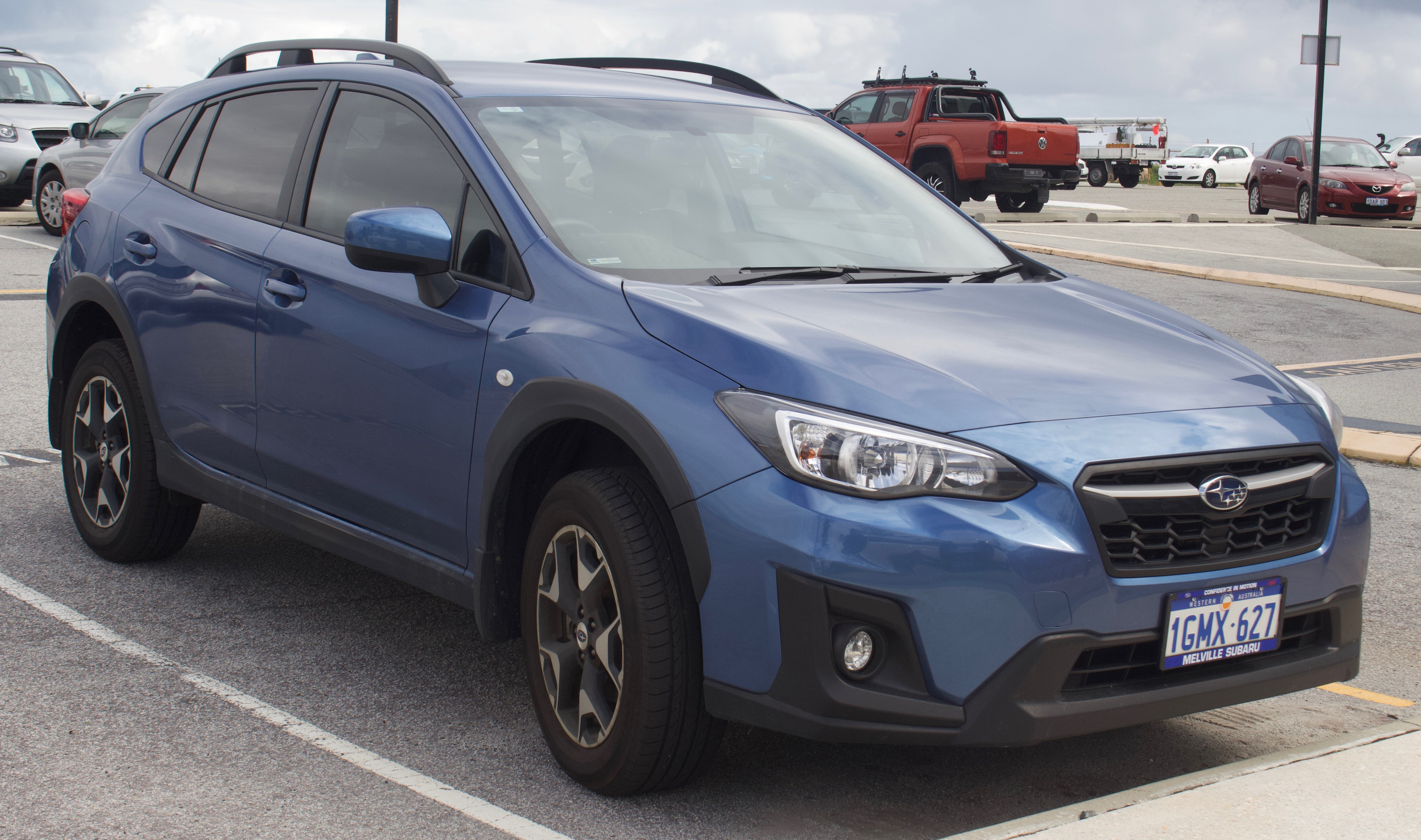 2018 Subaru XV (GT7) 2.0i wagon. Photographed in Fremantle, Western Australia, Australia.